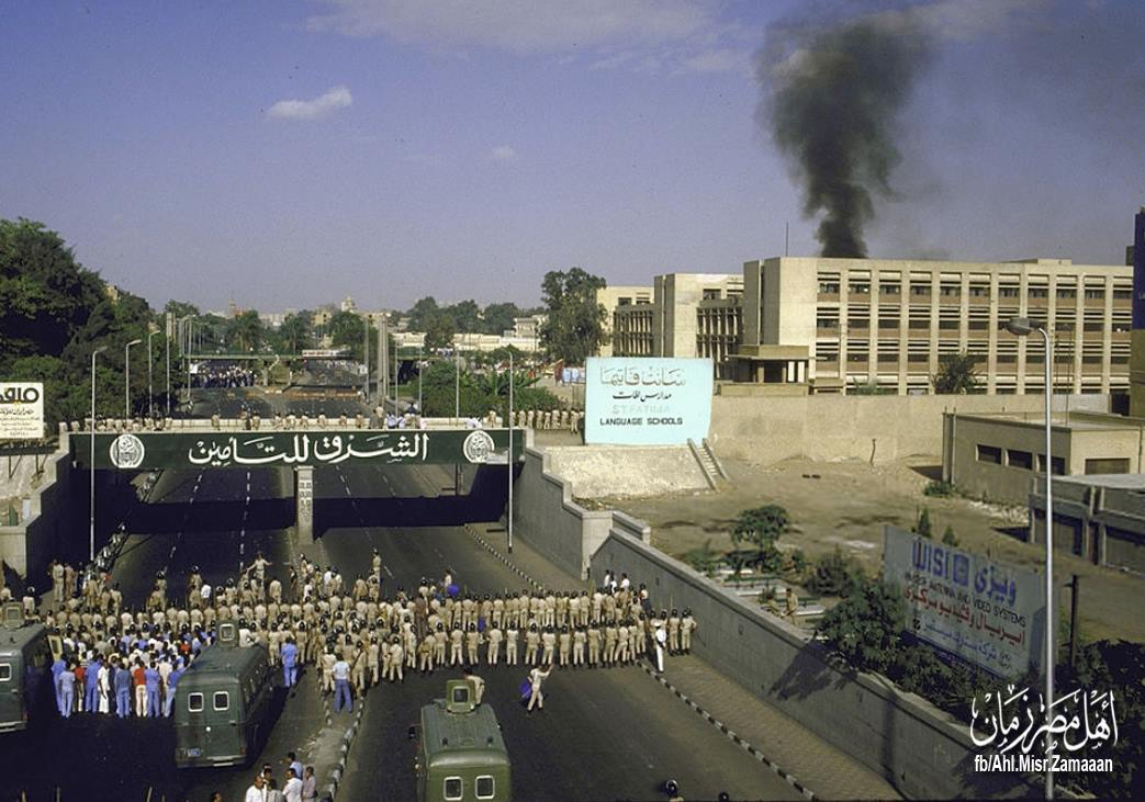 Ain Shams University demonstration 1985 After American forces trial of kidnapping Egyptair flight in Rome. It was carrying Palestinians that have attempted the resistance operation on an American ship.